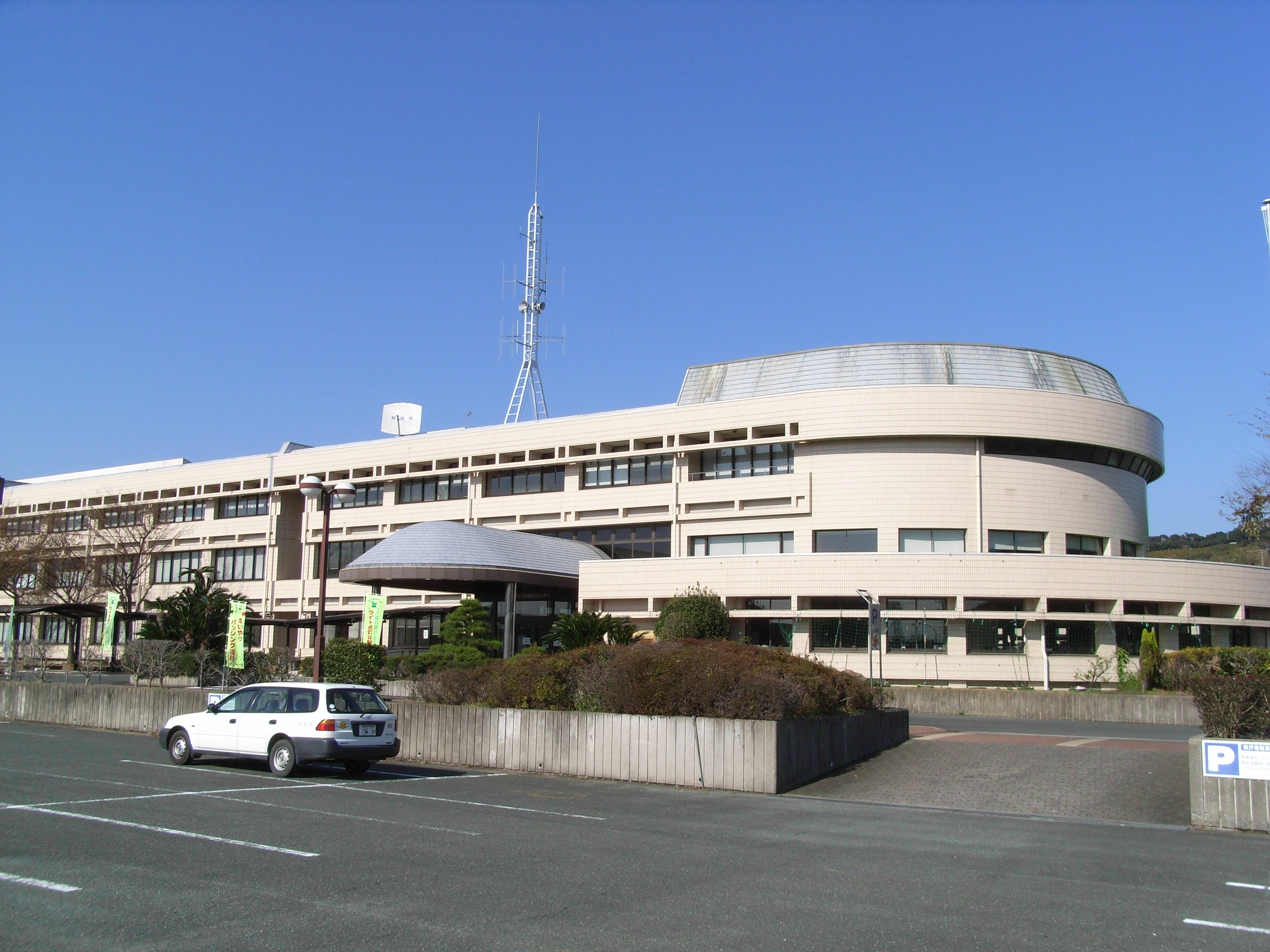 Hamamatsu City Kita Ward Office Mikkabi Local Service Center